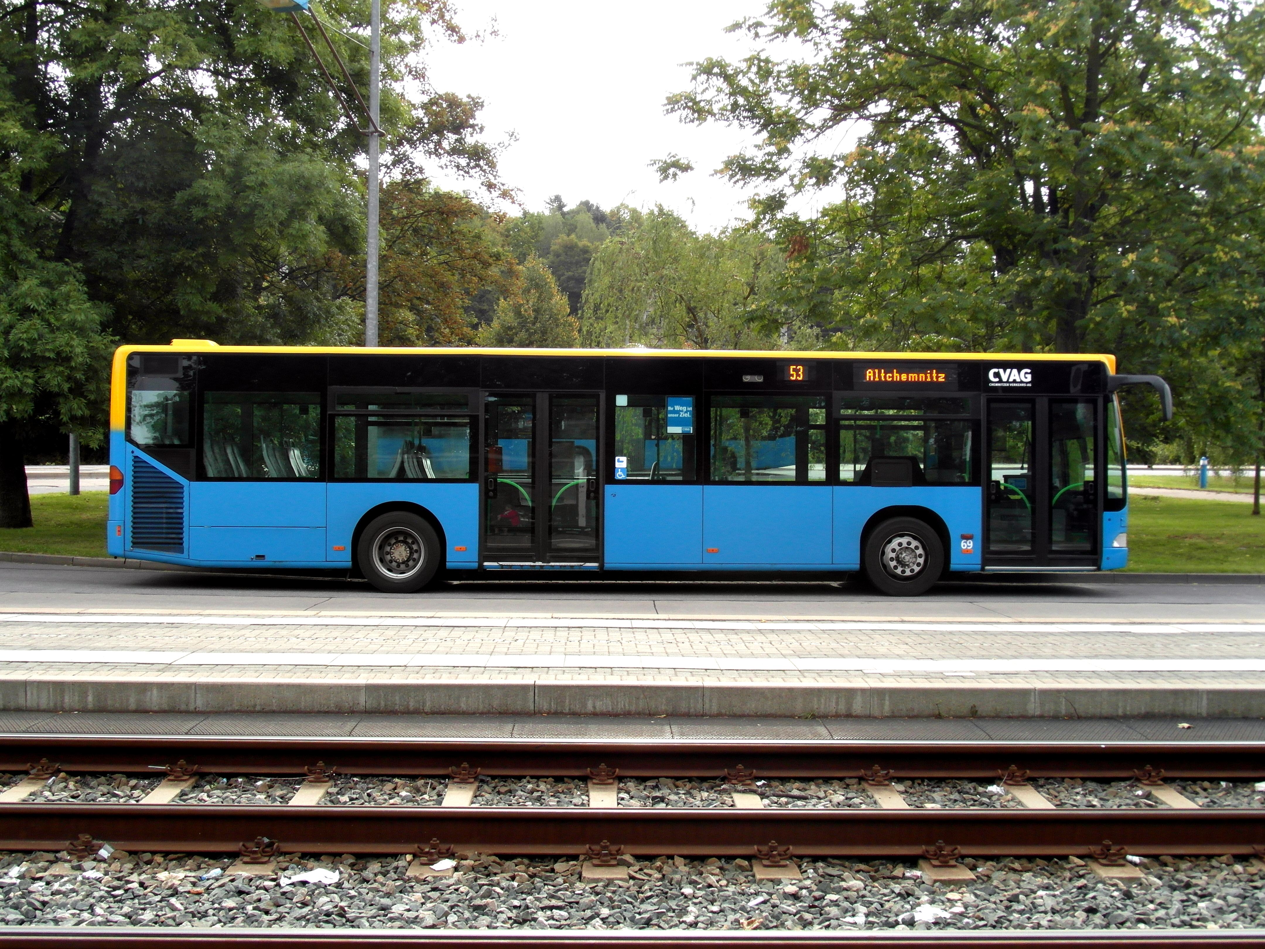 Bus of the CVAG in Chemnitz.